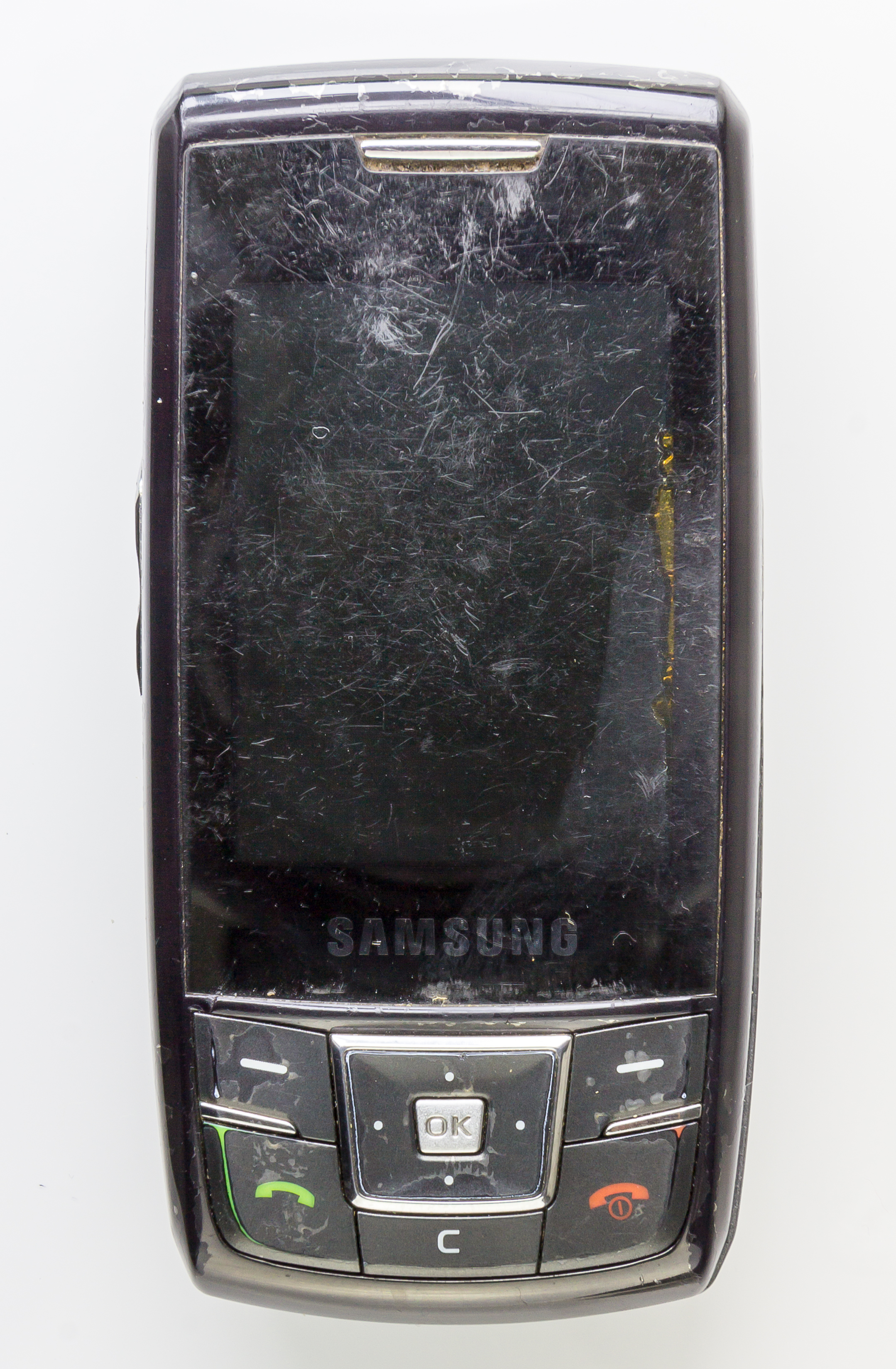 Samsung SGH-D880 with dual SIM. Mobil phone heavily used, display grazed